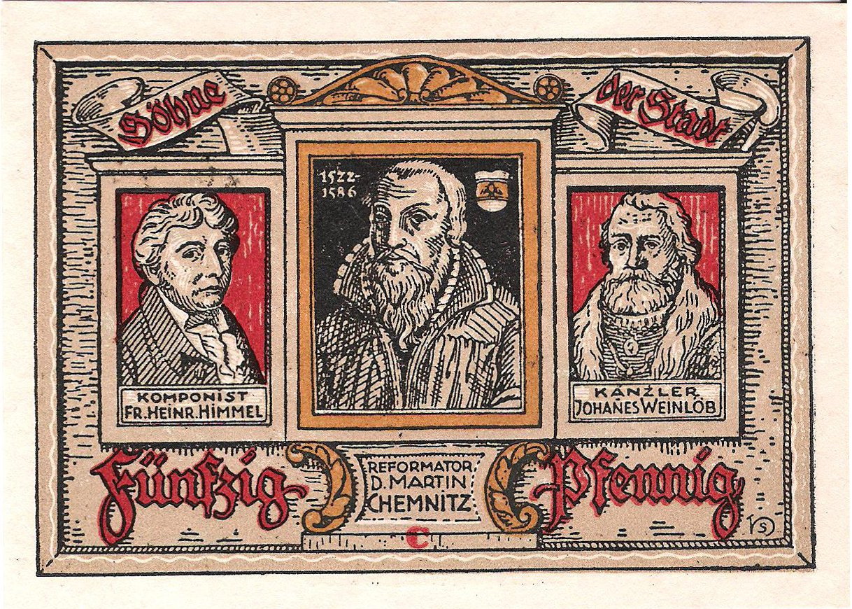 local emergency money, Treuenbrietzen 1921